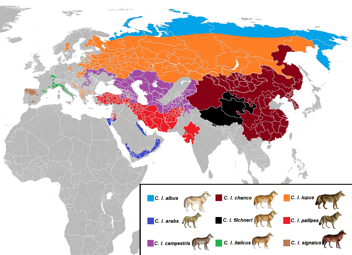 Present distribution of Eurasian grey wolf subspecies. All except signatus and italicus are recognised by MSW3. Latter two added in light of DNA studies. Campestris range reconstructed from Heptner et al (1998). Filchneri and chanco ranges based on [1]. NOTE FOR EDITORS: Use Microsoft paint for range modifications.